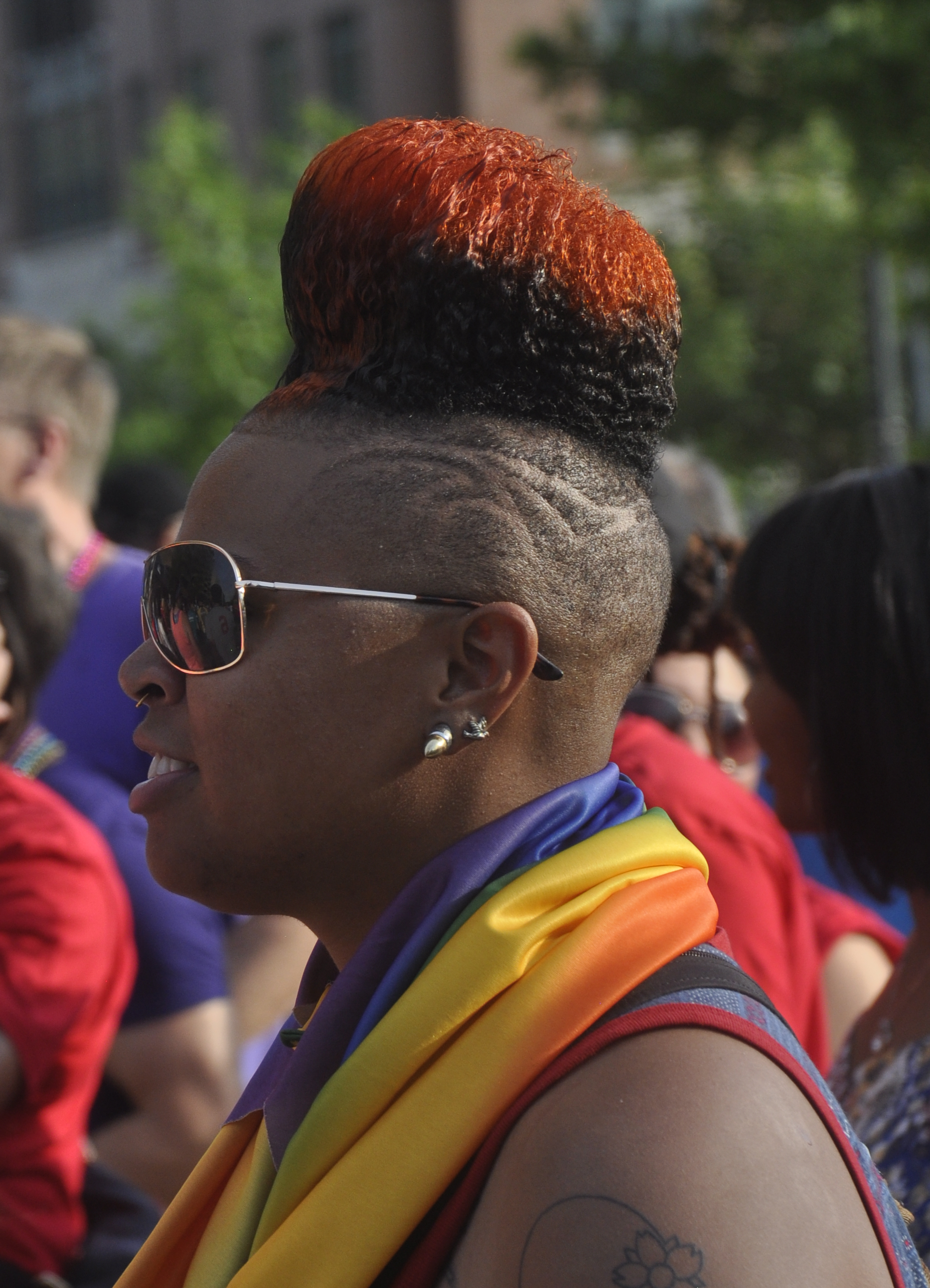 2016 Capital Pride in Washington, D.C.